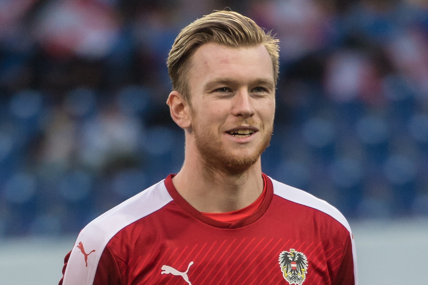 European Under-21 Championship 2017 Qualifying Round, Austria vs Germany, 11/10/2016, St. Polten